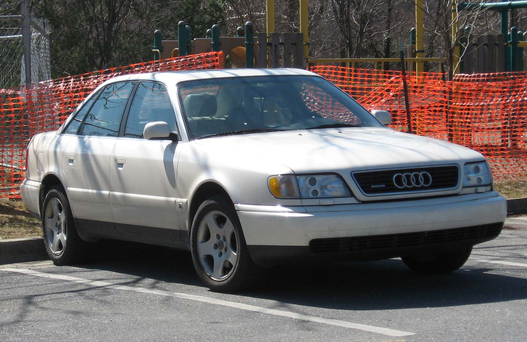 1994-1997 Audi A6 photographed in USA.